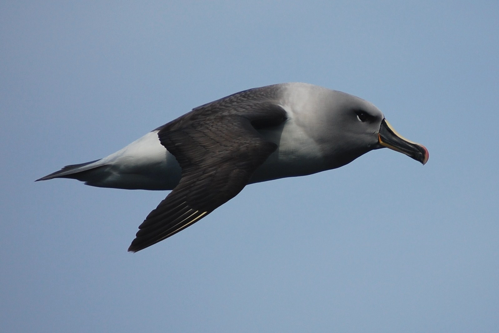 A Grey-headed Albatross flying in Southern Ocean, Drake's Passage.